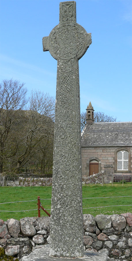 Island of Iona, Scotland - St MacLean's Cross